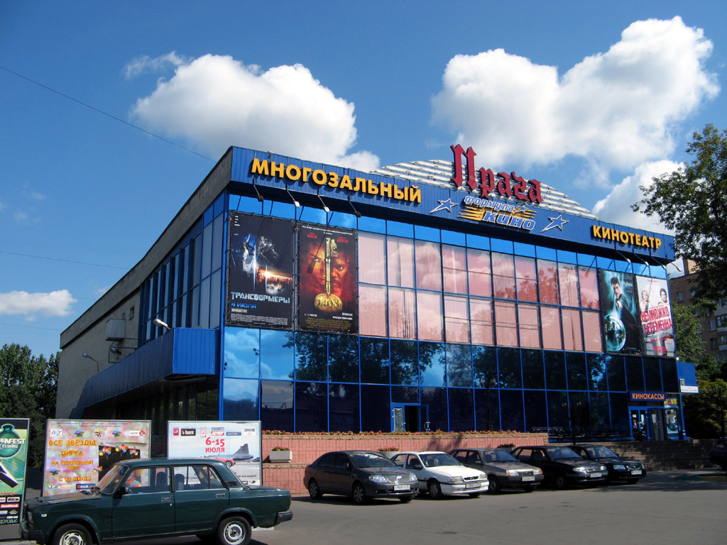 “Praga” cinema in Moscow